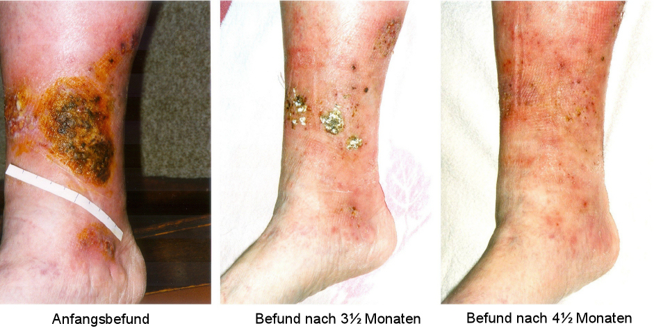 Example of the healing process of a chronic venous stasis ulcer of the lower leg under therapy with wIRA. 88 year-old woman with an infected (lightly malodorous) crustaceous ulcer (of the right distal medial lower leg), which had persisted for 13 months and had increased despite conservative dermatological therapy including local antisepsis, systemic antibiotic, and non-adhesive wound dressing up to 10 cm in diameter. Chronic venous insufficiency with marked stasis-related edemas of the lower legs and extensive stasis dermatitis, diabetes mellitus type II (orally treated), slightly overweight, and decreased amount of daily motion. Under irradiation with wIRA(+VIS) 30 minutes once daily, compression therapy, local antisepsis, non-adhesive wound dressing and the possibility of ending the systemic antibiotic therapy, a complete wound closure was achieved within 4½ months: initial findings, result after 3½ months, result after 4½ months (healed).